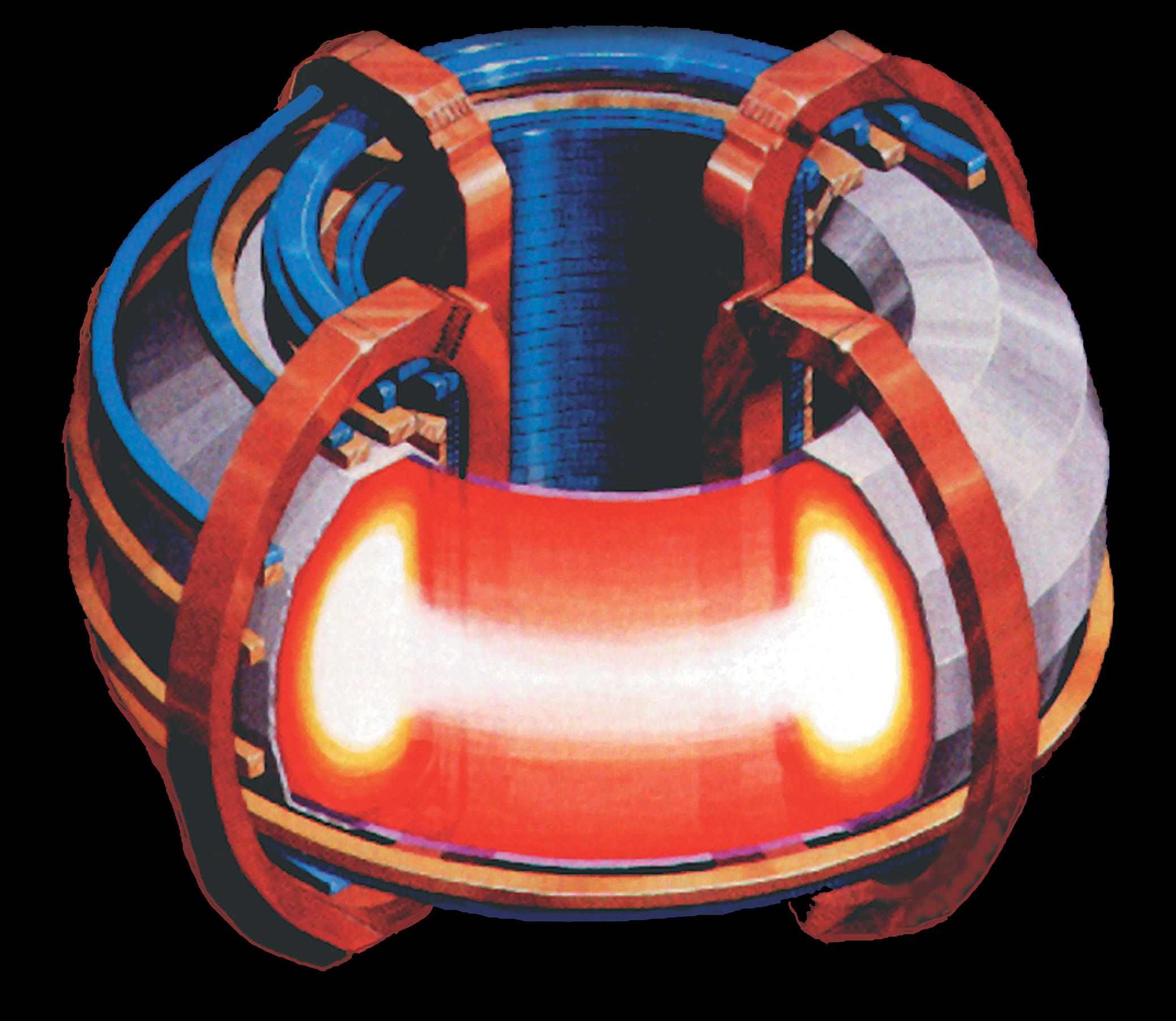 MAGNETIC FUSION ENERGY CONCEPT. FUSION IS THE POWER SOURCE OF THE SUN AND STARS. IT OCCURS WHEN FORMS OF THE LIGHTEST ATOM, HYDROGEN, COMBINE TO MAKE HELIUM IN A VERY HOT (100 MILLION DEGREE CENTIGRADE) IONIZED GAS, OR PLASMA. MAGNETIC FUSION ENERGY IS PRODUCED WHEN THE PLASMA IS CONFINED BY A MAGNETIC FIELD AND HELD AT THE REQUIRED DENSITY AND TEMPERATURE. INERTIAL FUSION ENERGY IS ANOTHER APPROACH TO FUSION ENERGY. DOE'S FUSION ENERGY SCIENCES PROGRAM LEADS THE NATION'S EFFORT IN THE STUDY OF PLASMA, THE FOURTH STATE OF MATTER, WHICH CONSTITUTES MOST OF THE VISIBLE UNIVERSE, AND IS AT THE CORE OF A FUSION POWER SYSTEM. For more information or additional images, please contact 202-586-5251.